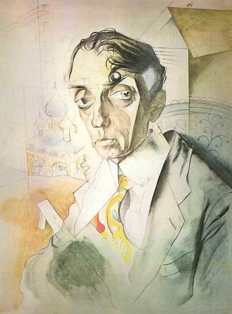 Yury Annenkov (1889-1974). Mikhail Kuzmin, 1919 portrait by Yury Annenkov